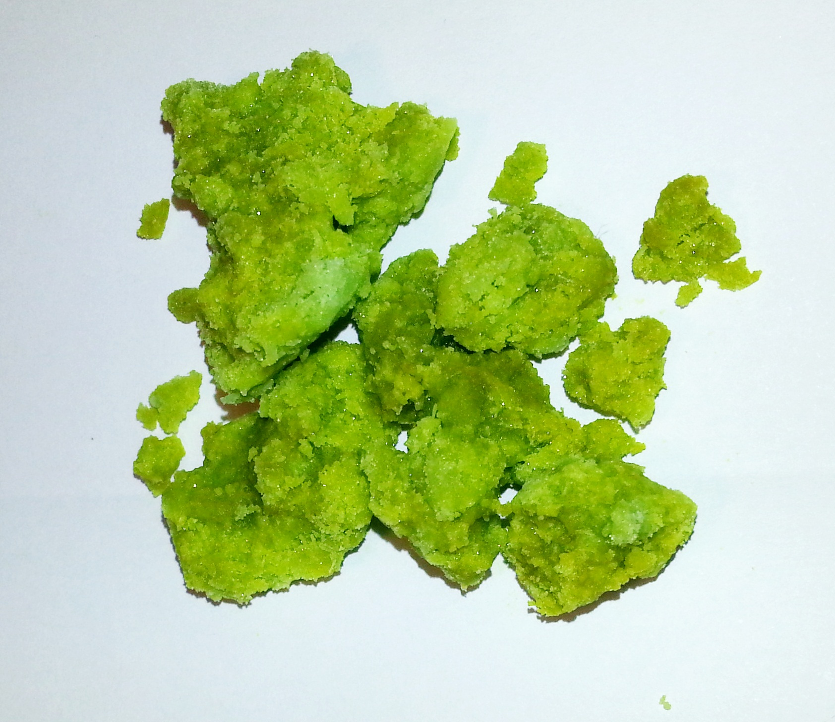 This is iron(II) chloride tetrahydrate. The brown colour comes from oxidation processes with air-oxygen. It gets rapidly brown under normal air conditions. So this is a slight moist product direct after production too get the nice green colour.